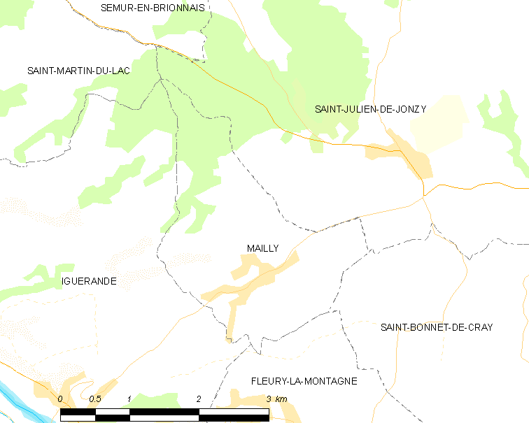 Map of French municipality